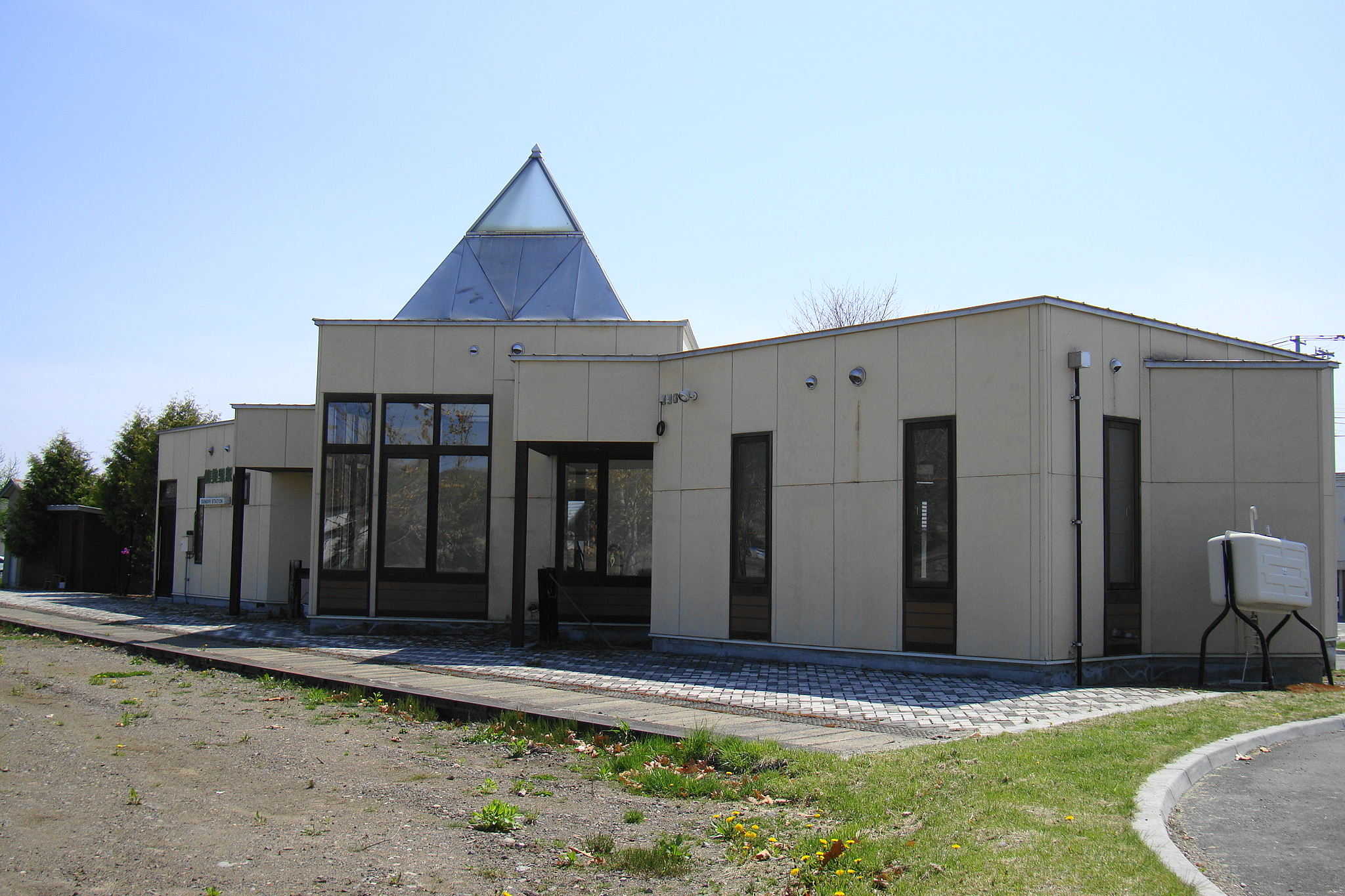 Senbiri Station. Disused train stations on Hokkaidō Chihokukōgen Railway.